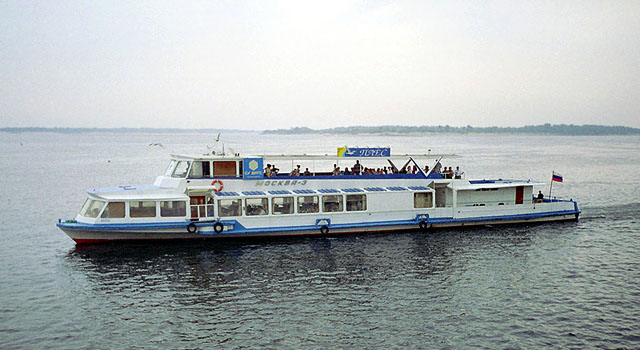 "MOSKVA-3" on Volga river in Volgograd (2002). Project R-51